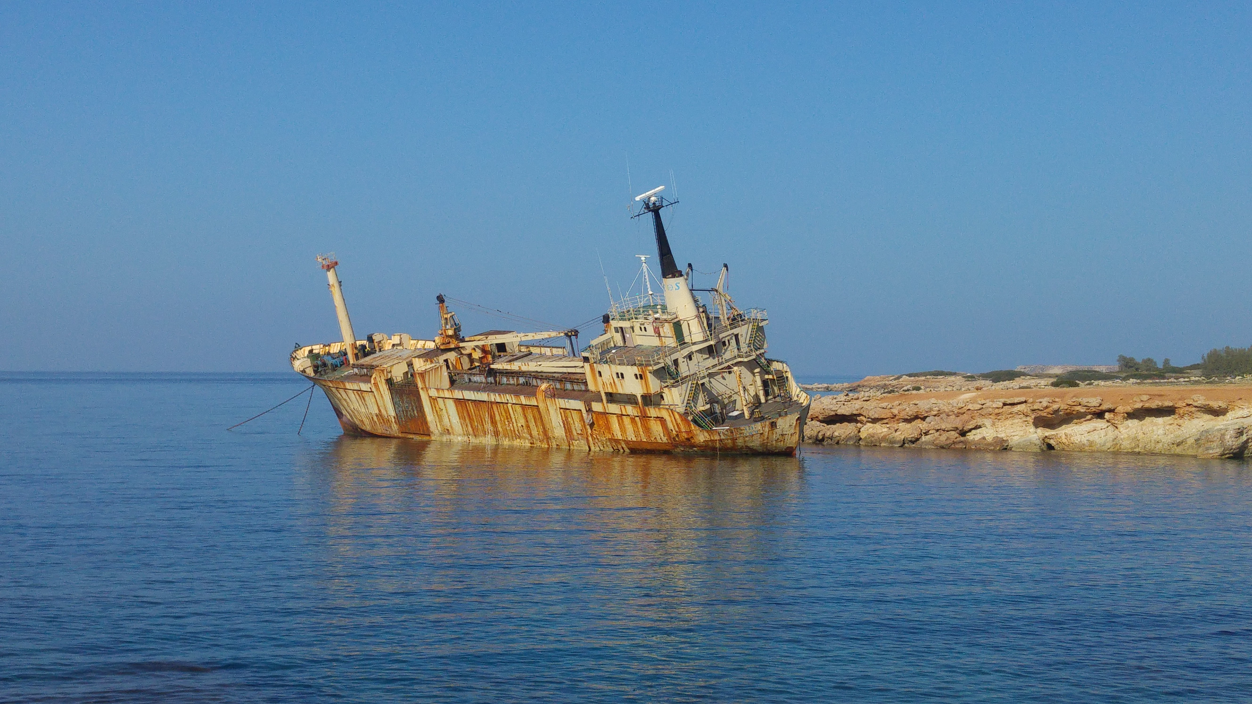 Edro III ship, Peyia, Cyprus, November 2017